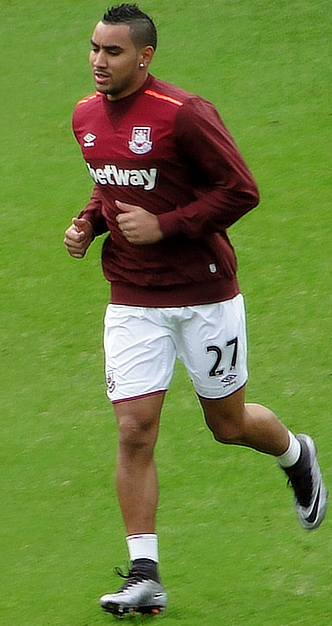 West Ham United player, Dimitri Payet warming-up before their Premier League defeat of Liverpool at the Boleyn Ground, January 2016.